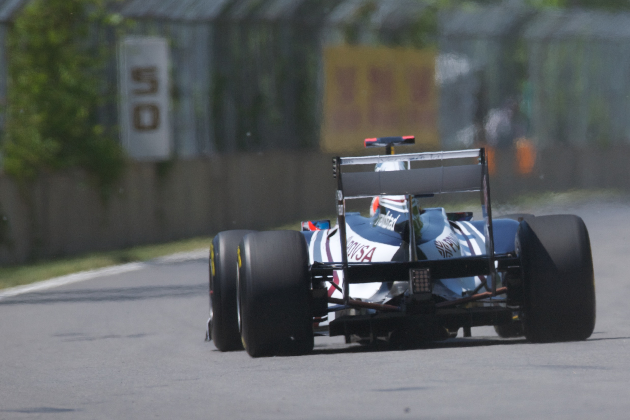 2011 Canadian Grand Prix